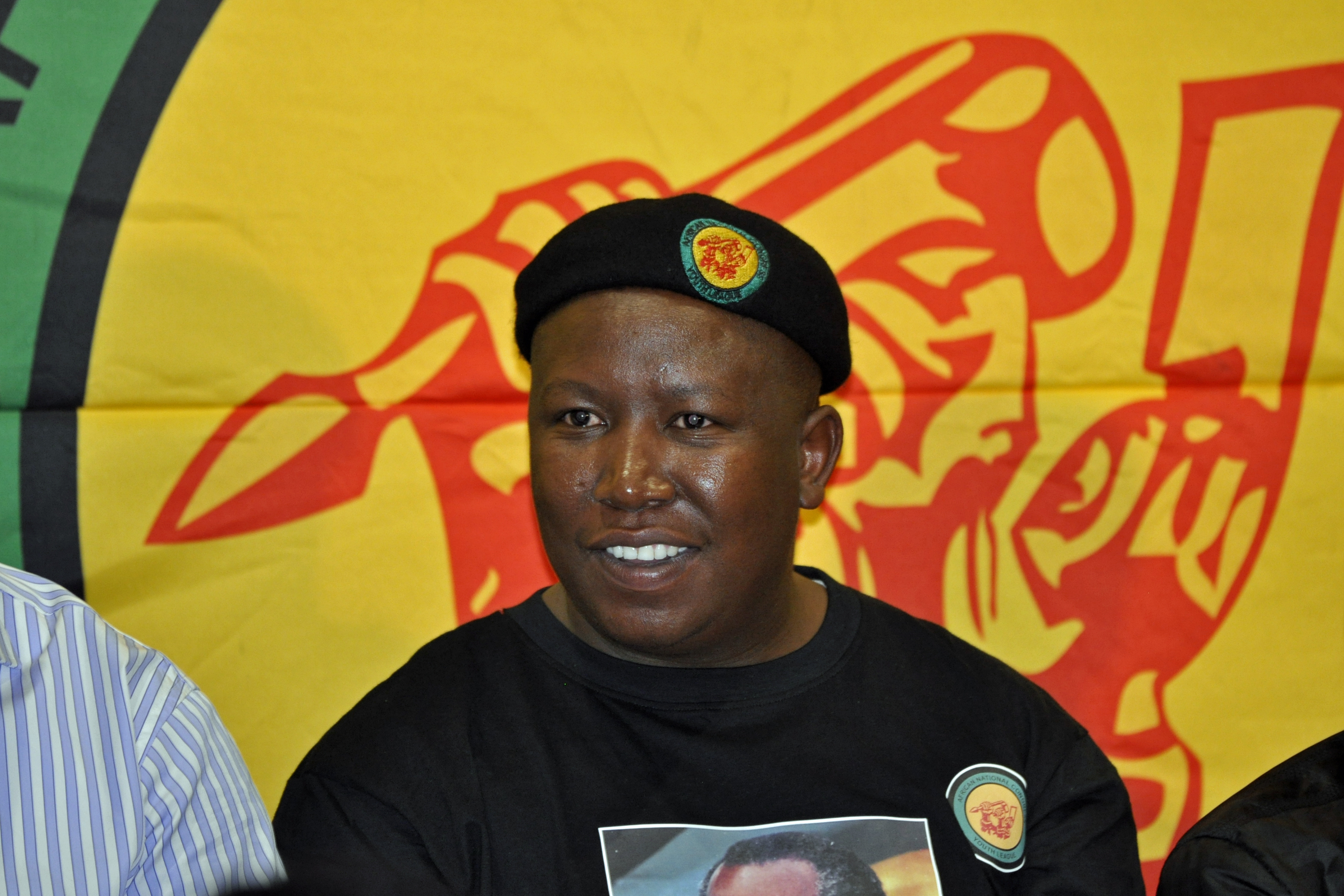 Julius Malema, while still a member of the ANC Youth League